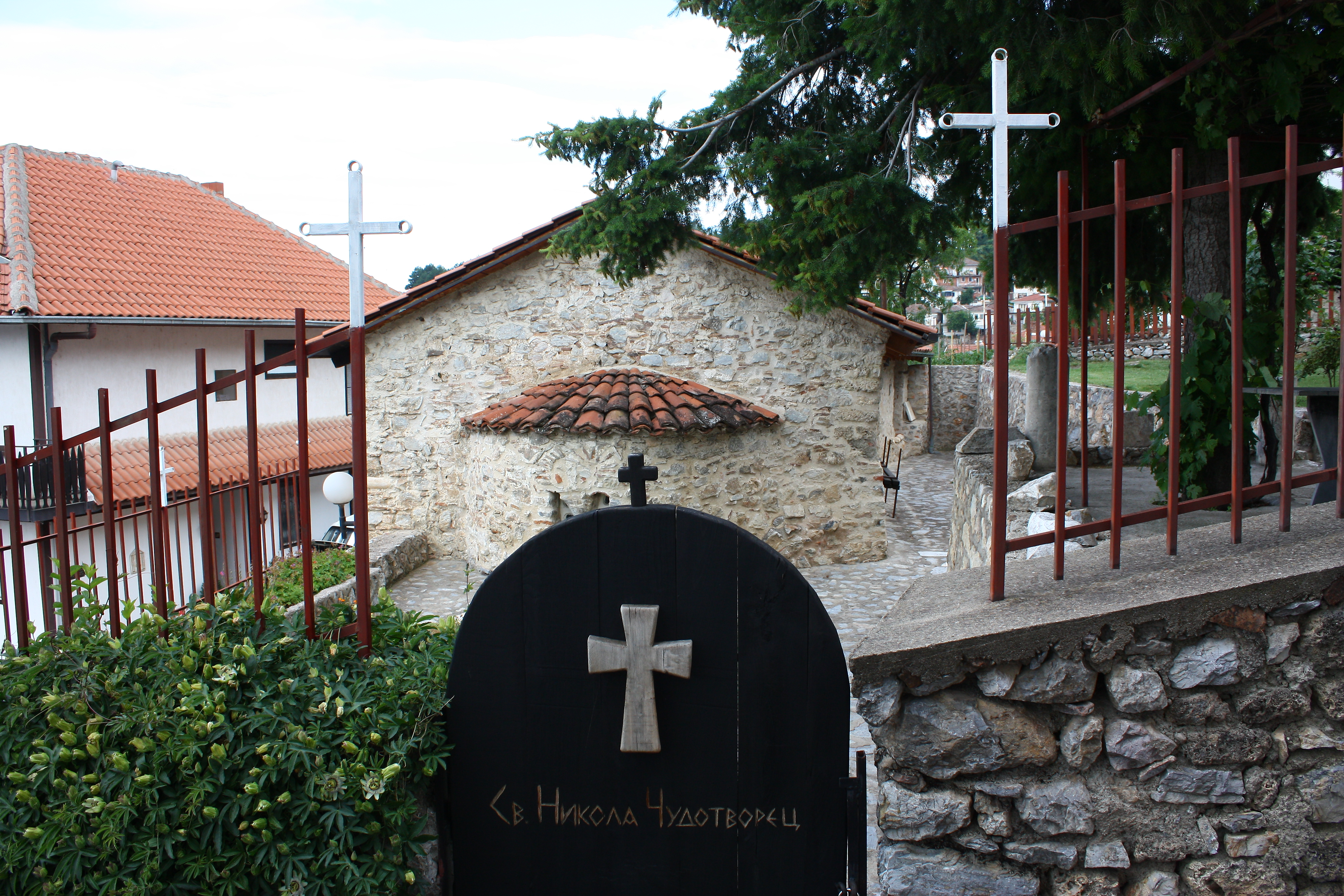 Church of St. Nicholas the Wonderworker in Ohrid, Macedonia